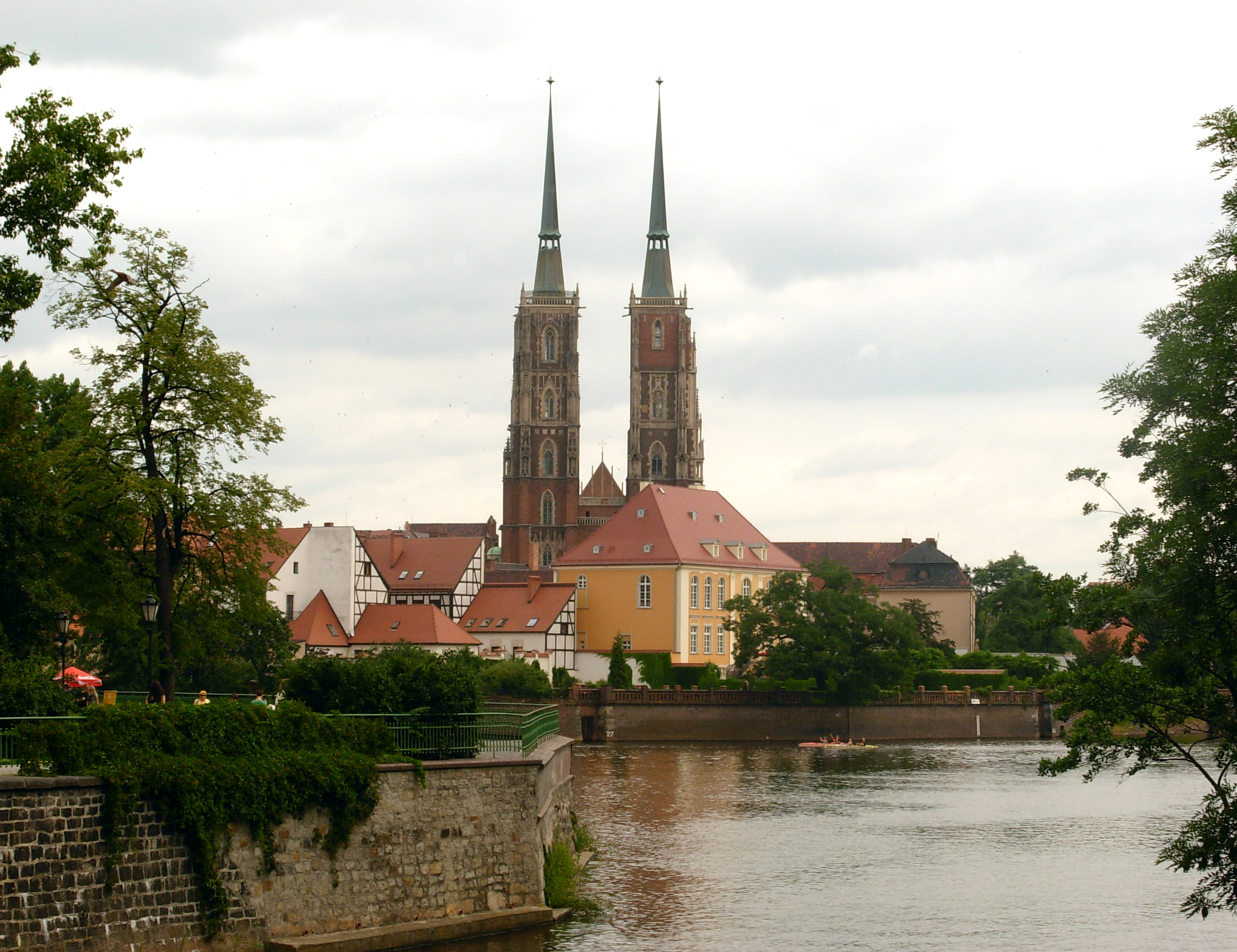 Cathedral church in Wrocław, west towers seen from west south west (south river bank of the Odra River)